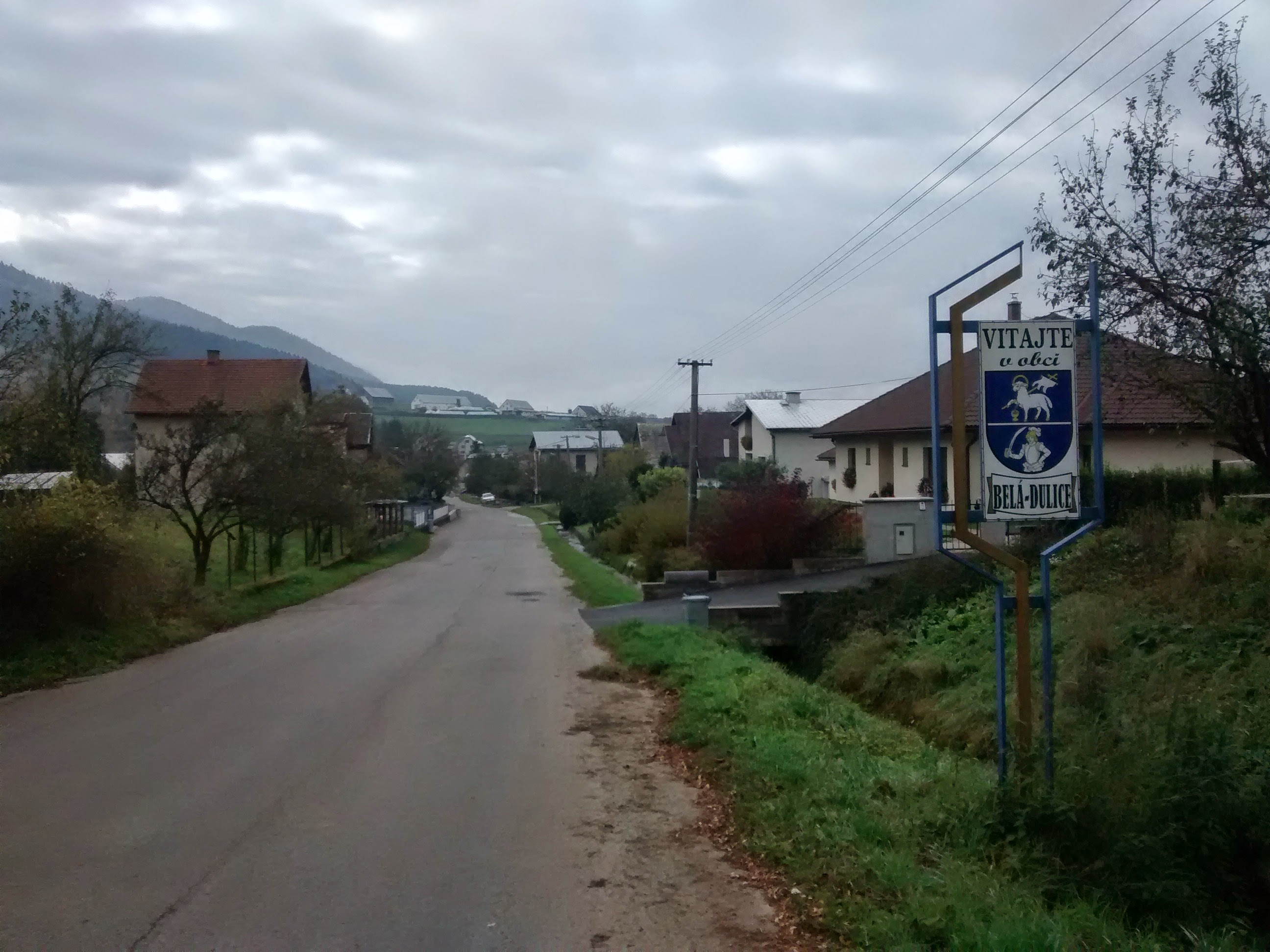 Belá-Dulice Entrance with Coat of Arms